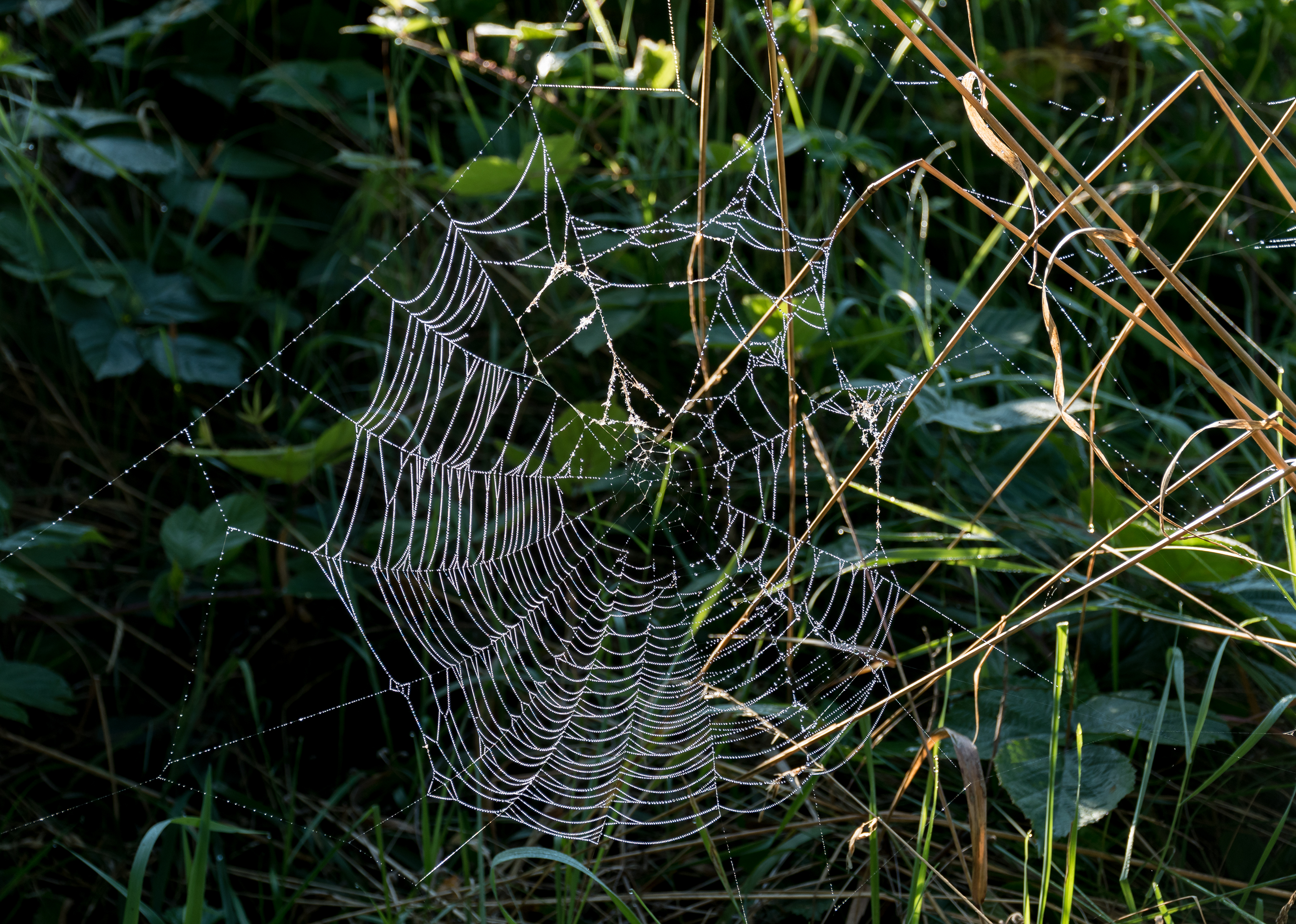 Spider web